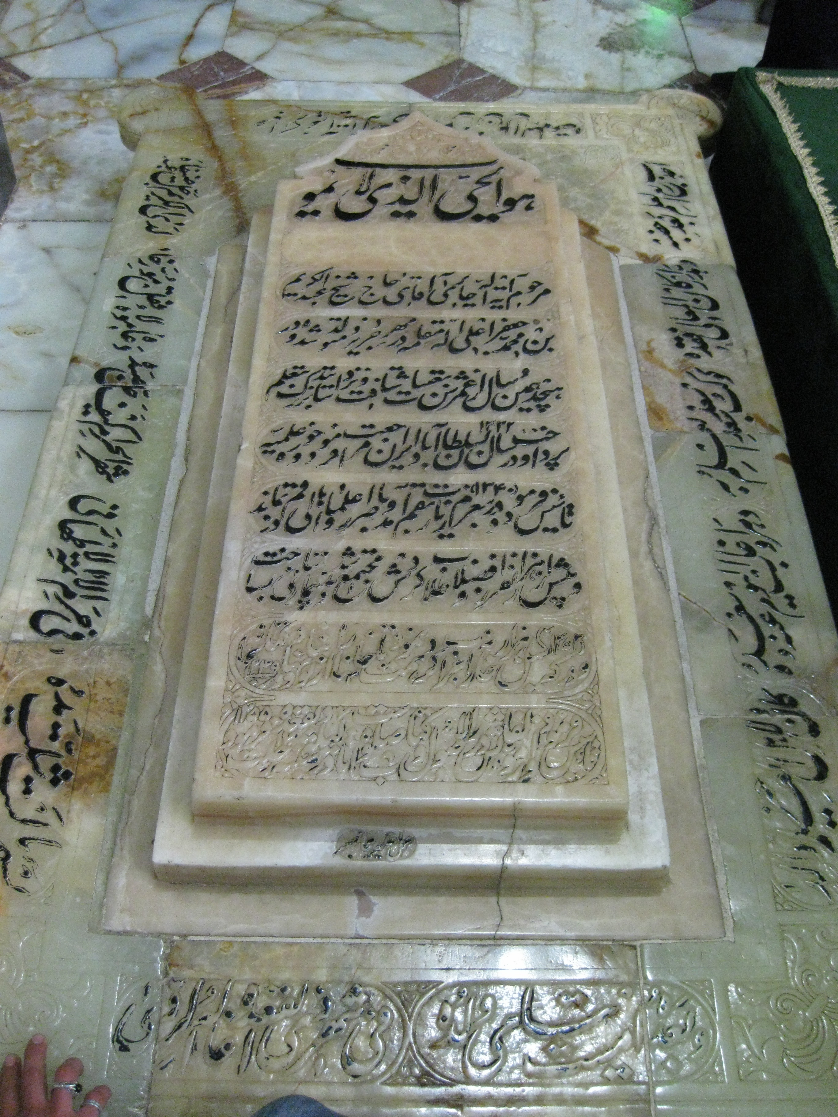 Tomb of Ayatollah Abdolkarim Haeri Yazdi; In Shrine of Fatimah Ma'sūmah, Qom, Iran.